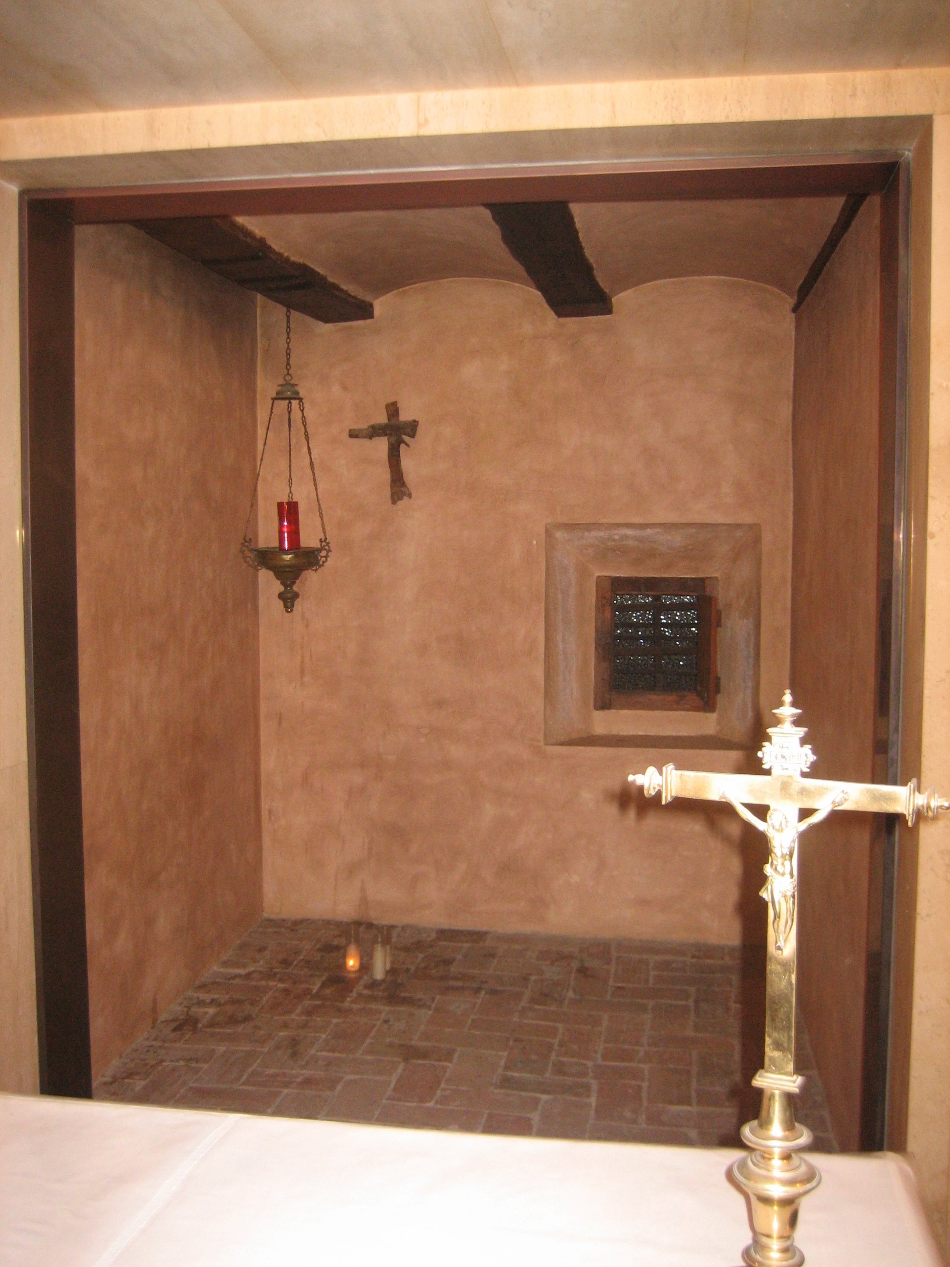 St. Paschal Baylón's cell in Vila-real